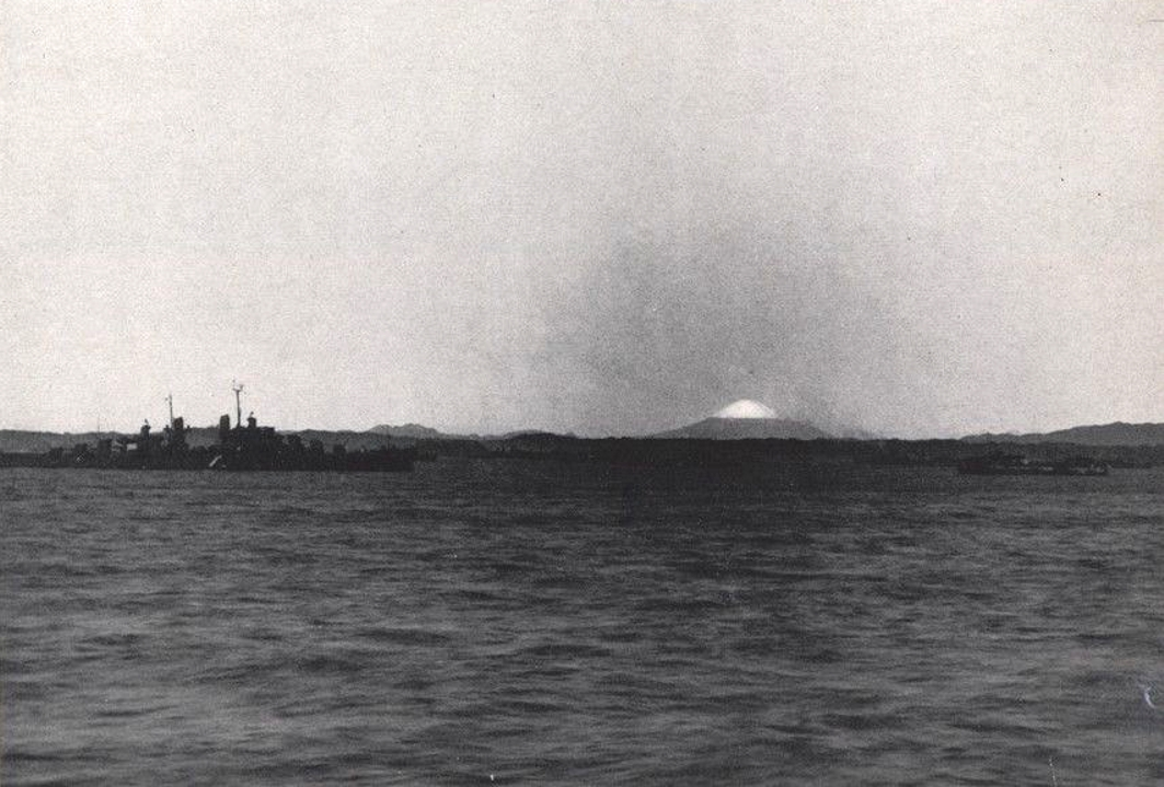 The U.S. Navy light cruiser USS San Juan (CL-54) in Tokyo Bay, circa in September 1945.